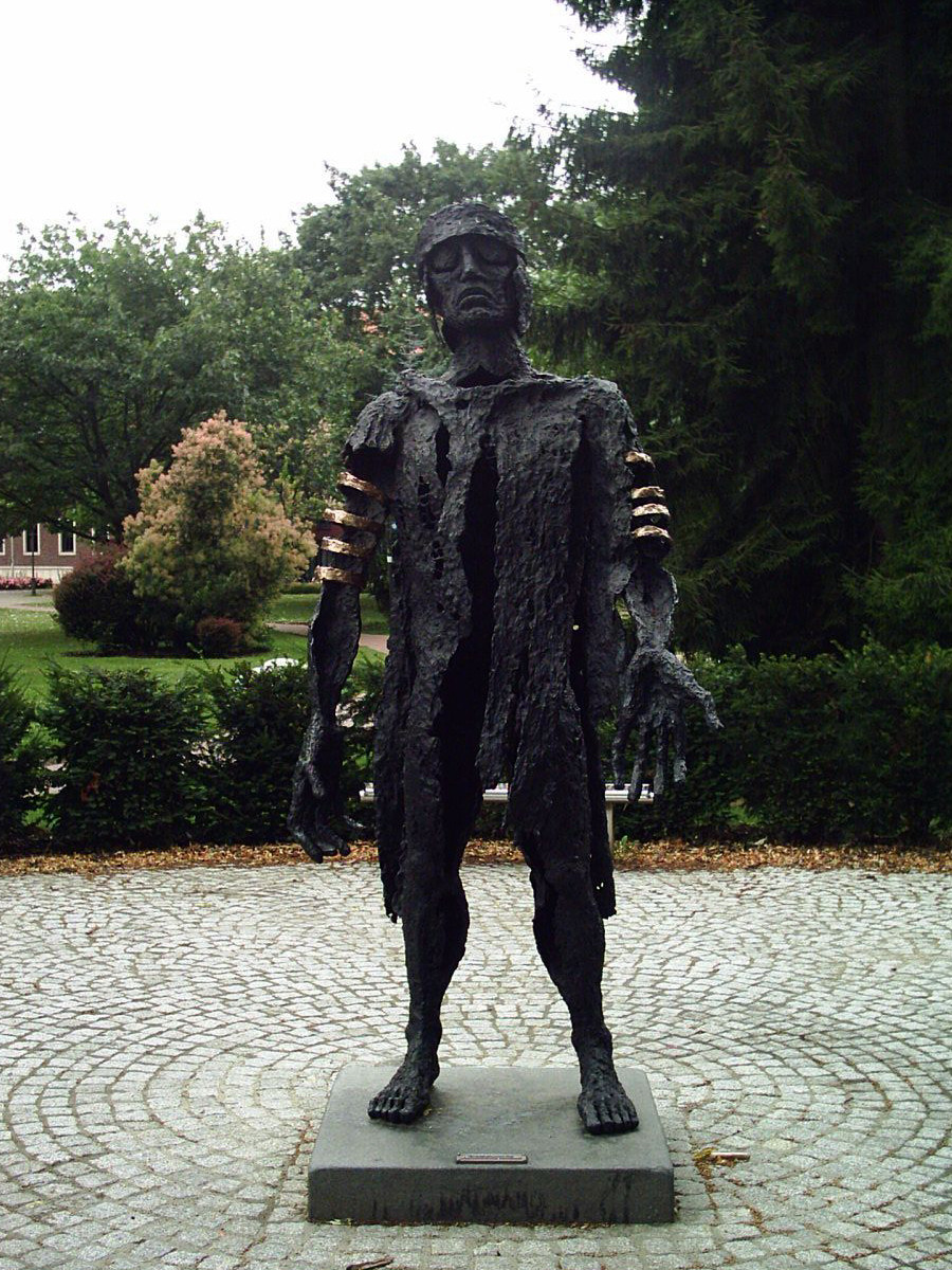 Der gescheiterte Varus (abortive Varus), Haltern am See, Germany check usage